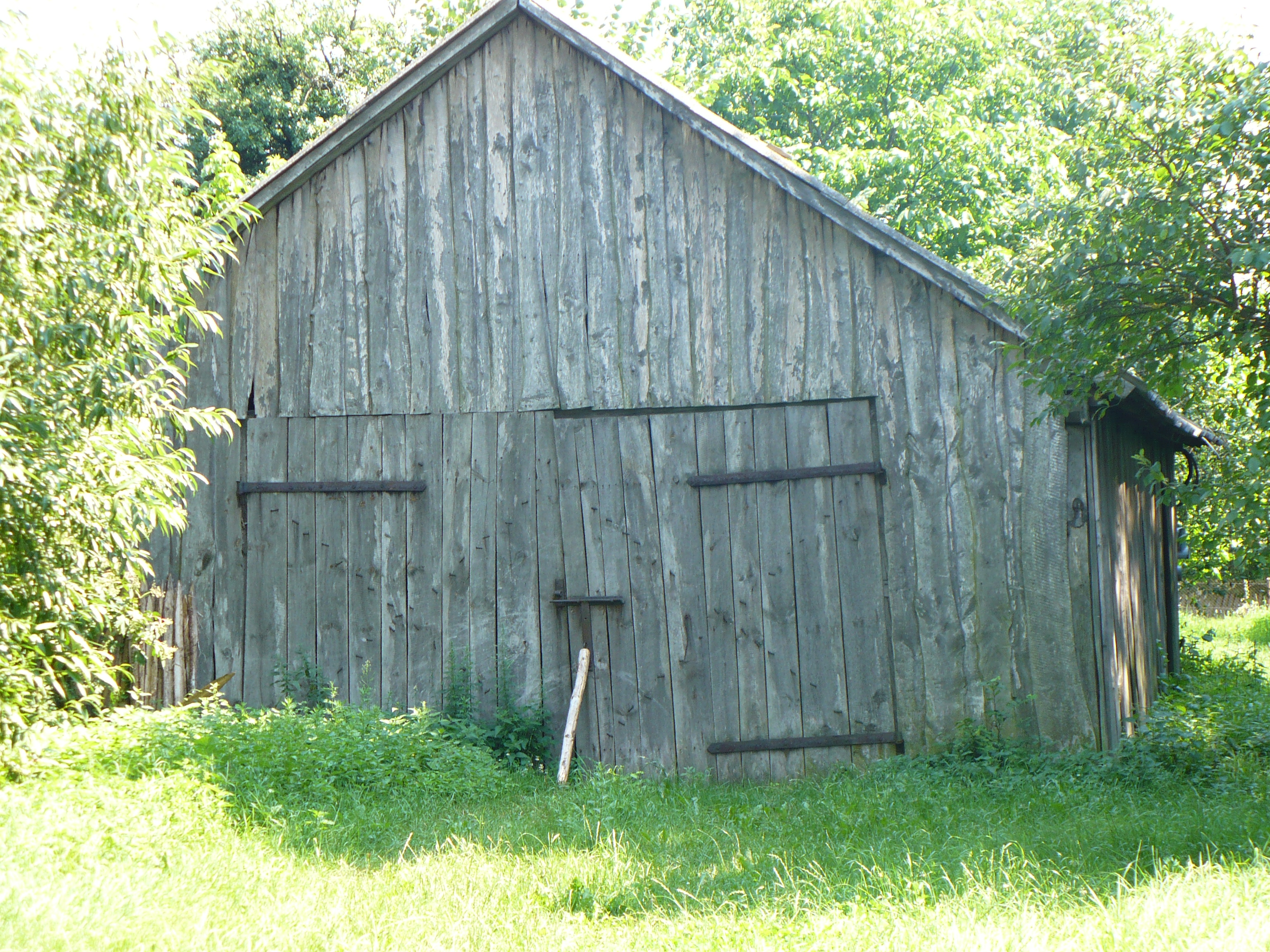 Old, wood barn in Rostki.